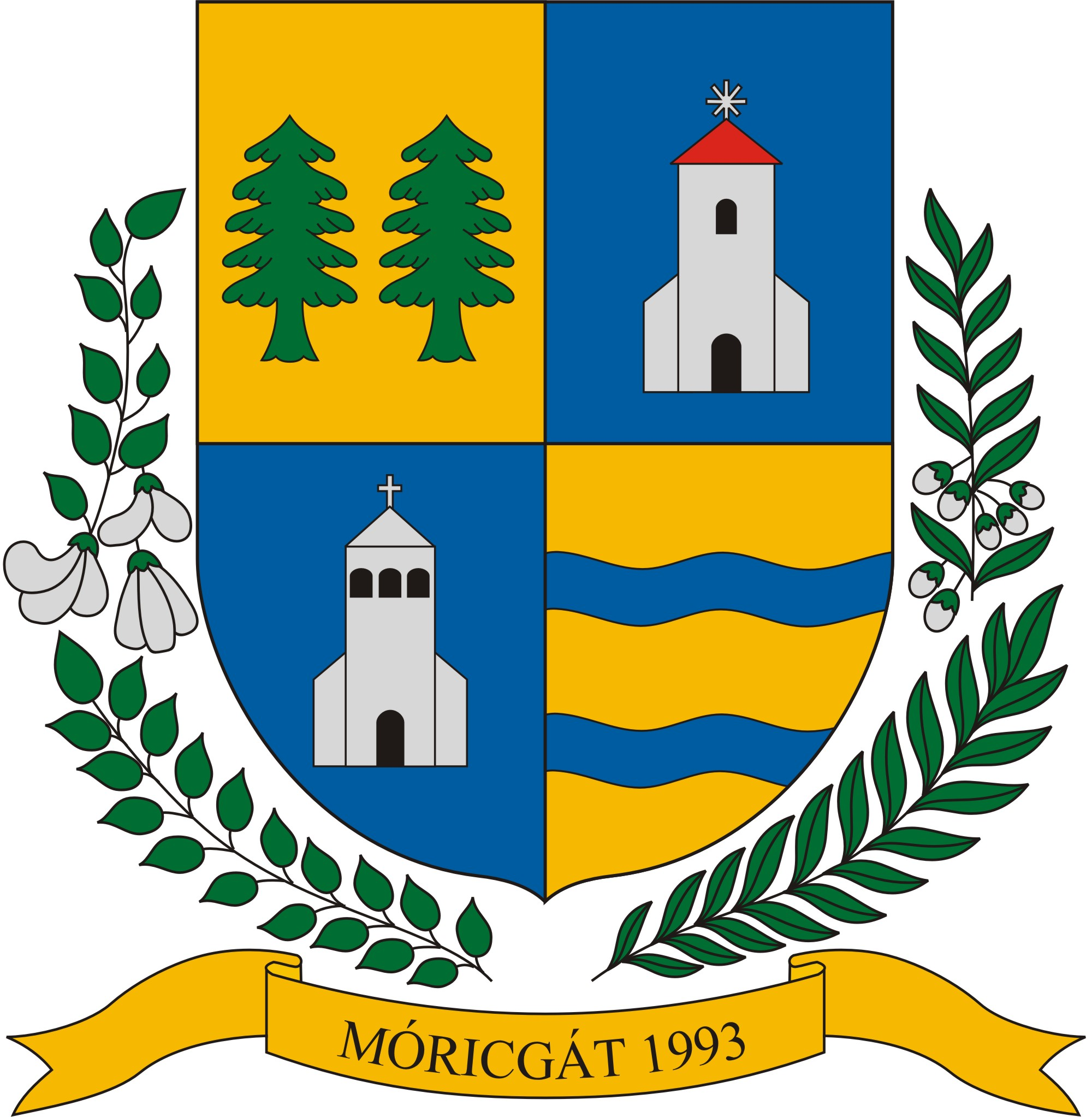 Coat of arms of Móricgát, Hungary